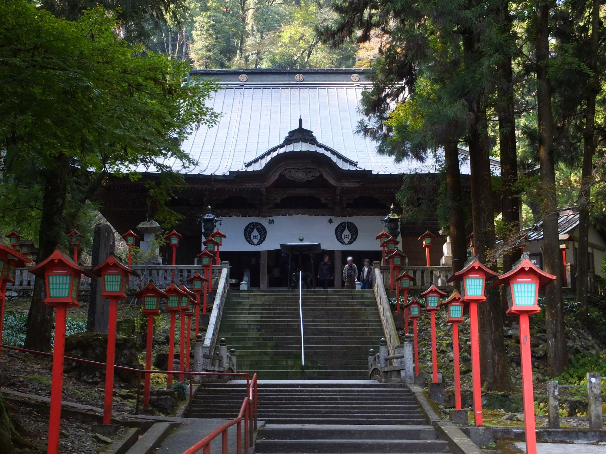 Main hall of Mangan-ji temple in Tochigi, Tochigi prefecture